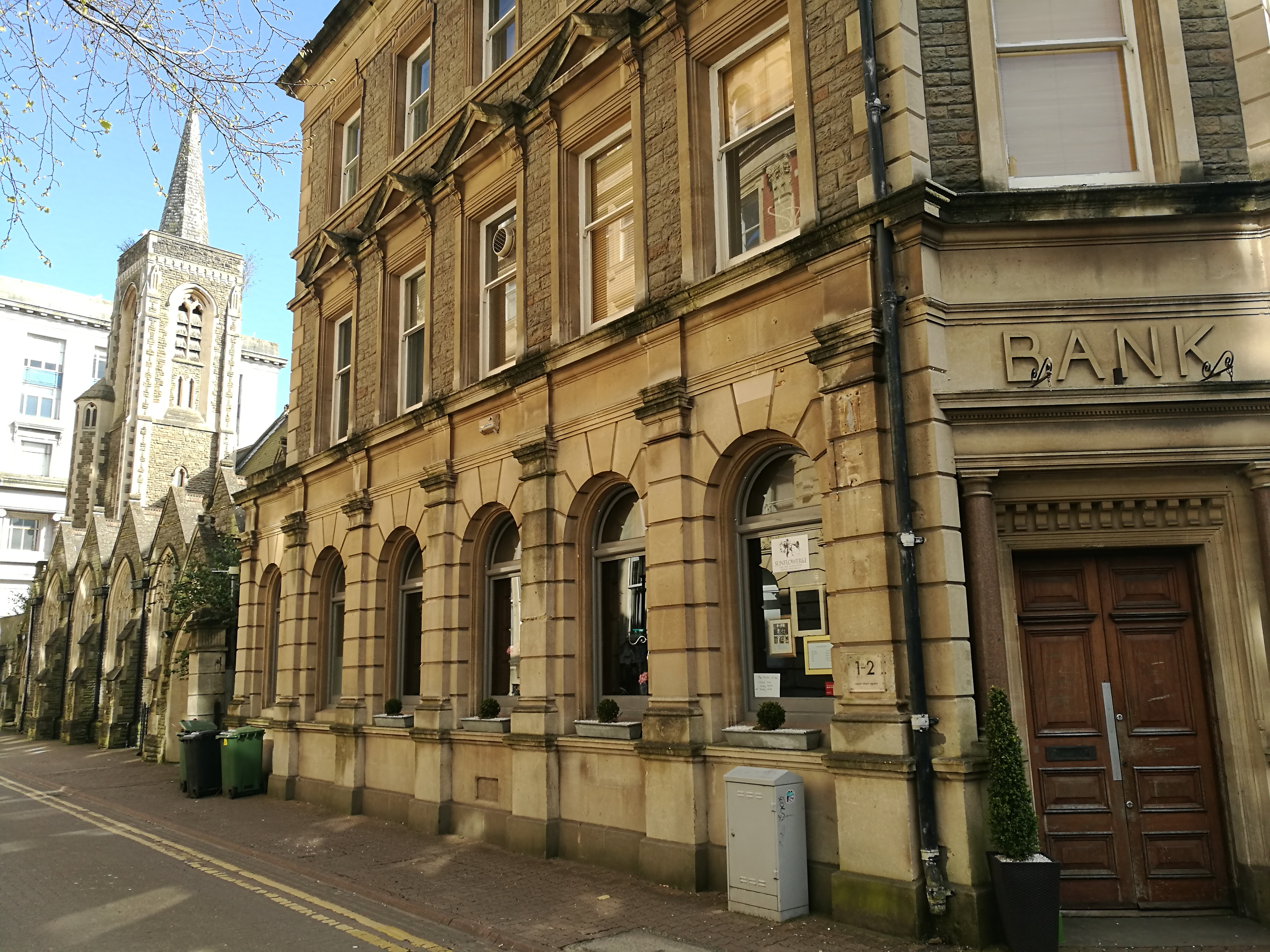 Lloyd's Bank, Mount Stuart Square, Cardiff